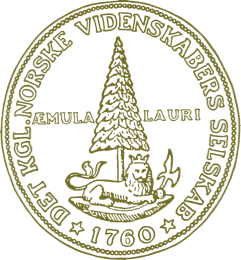 The logo, "Æmula lauri", of the Norwegian learned society Royal Norwegian Society of Sciences and Letters (Norwegian: Det Kongelige Norske Videnskabers Selskab (DKNVS))